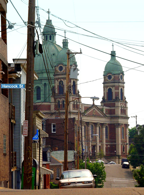 Photo shows view of Immaculate Heart of Mary Church (in Polish Hill), looking west on Dobson Street in Pittsburgh, Pennsylvania (intersection of Dobson and Hancock). I shot this photo myself. (31-MAY-2007). Hereby released to the public domain.